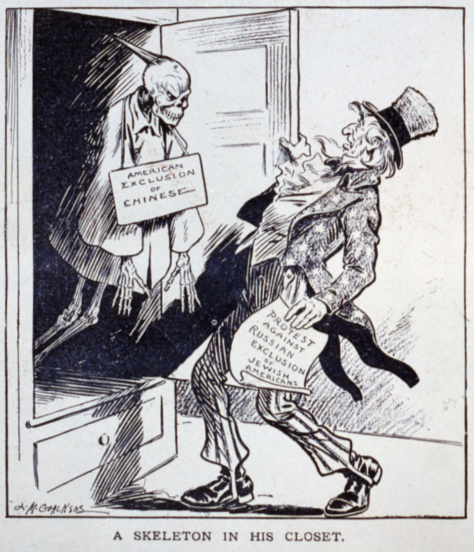 Editorial cartoon "A Skeleton in His Closet". Uncle Sam holding paper "Protest against Russian exclusion of Jewish Americans" and looking in shock at Chinese skeleton labeled "American exclusion of Chinese" in closet.